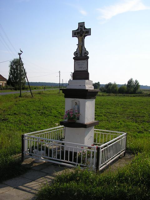 Crtucifix in Ždala